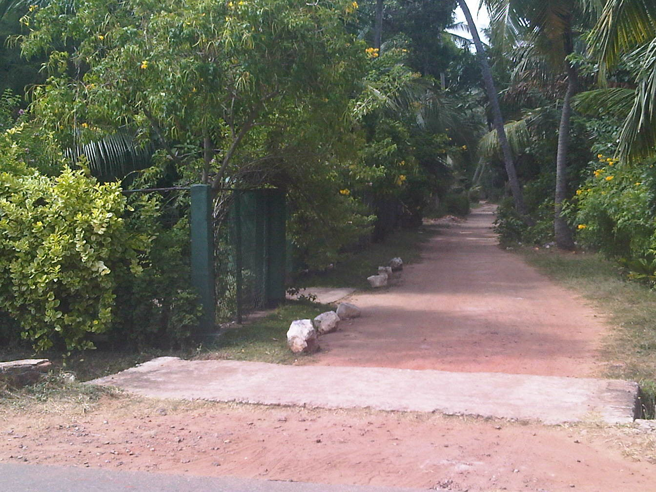 The Entrance to the historic Corea Court in Madampe on the West Coast of Sri Lanka. Several generations of the Seneviratne and CoreaFamilies lived in Corea Court. The estate in Madampe was handed to the Seneviratne Family by the King of Sri Lanka.